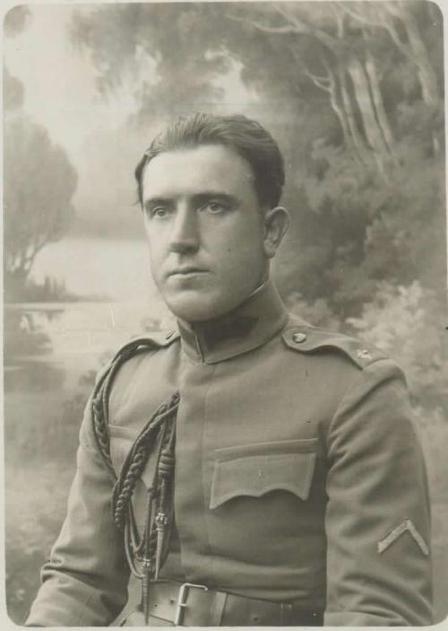 Avgust Lipovec (gendarme of Kingdom of Yugoslavia).Photo has been taken before 13.05. 1937. In the paper Domovina (13.05.1937, year 13, no 20), he is already mentioned as ex-gendarme, accused of murder and put on trial.